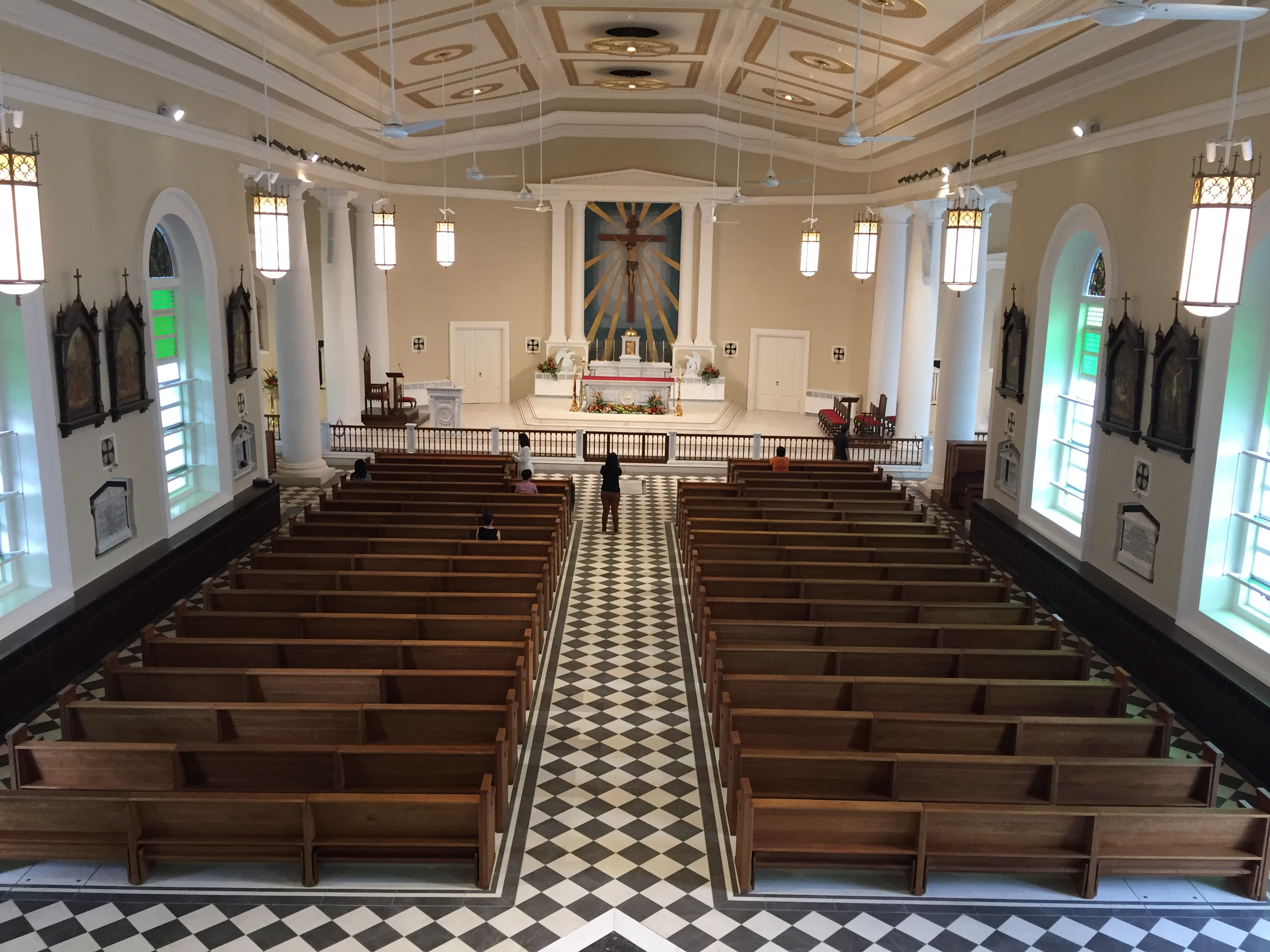 The new nave post 2016 restoration. The sanctuary has been remodelled and a new altar rail is installed.